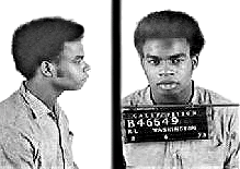 1974 police mugshot of Raymond Lee Washington.